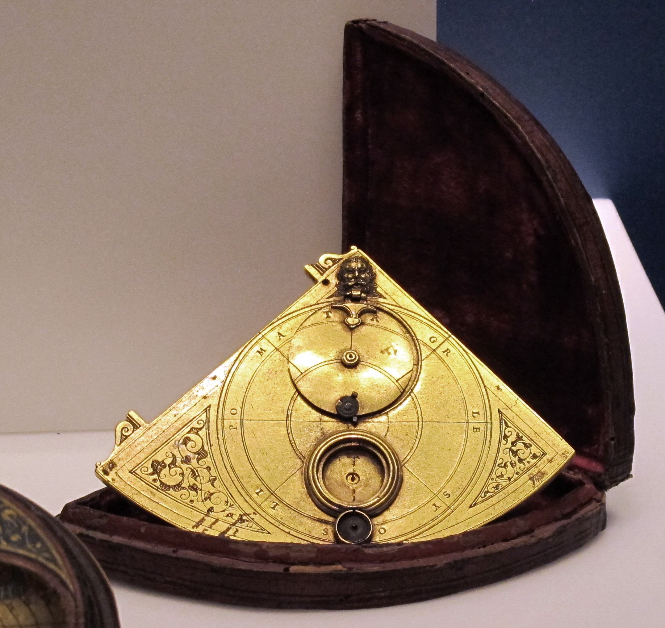 Horary quadrant.